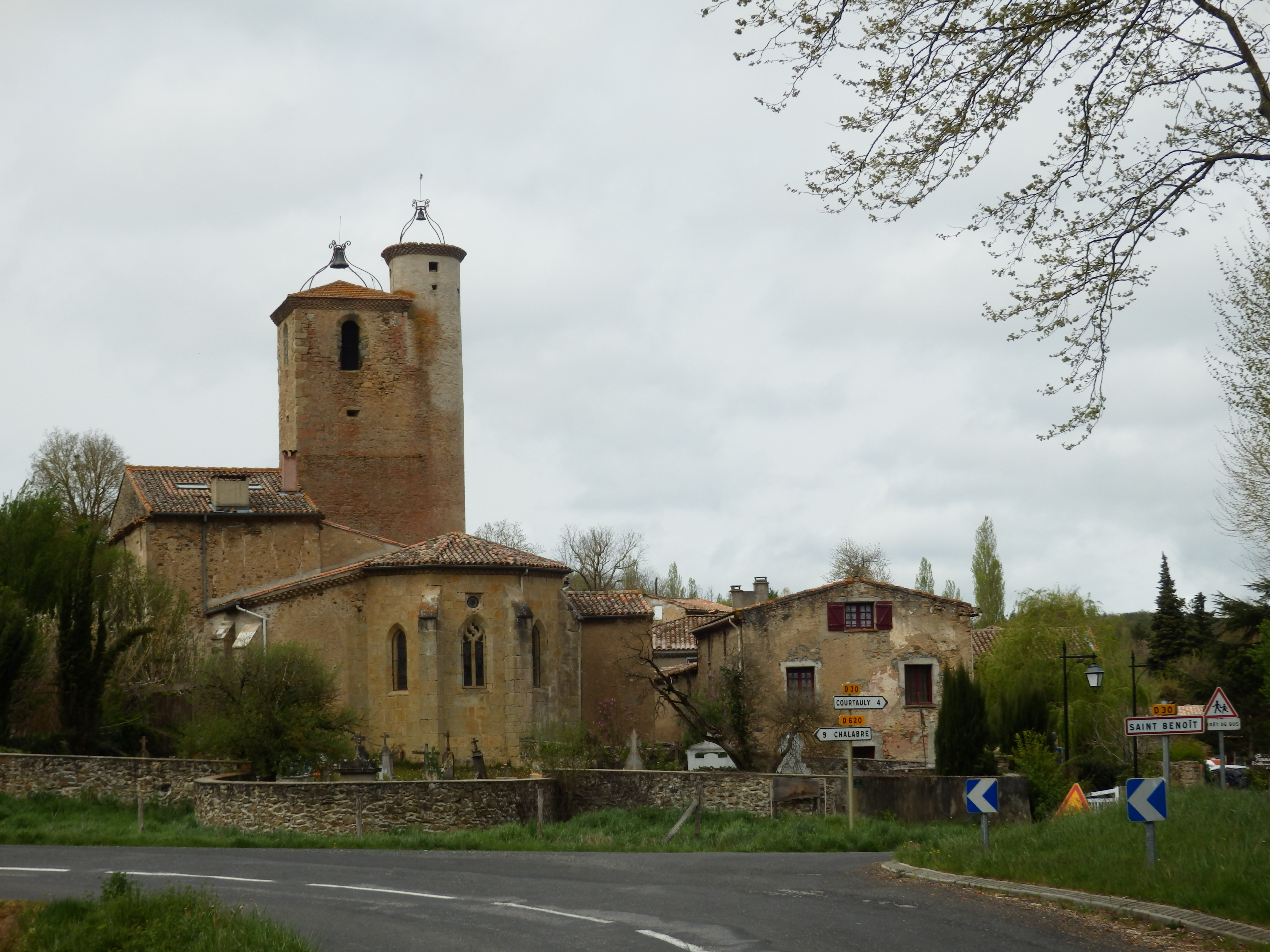 View of Saint-Benoît, Aude, France